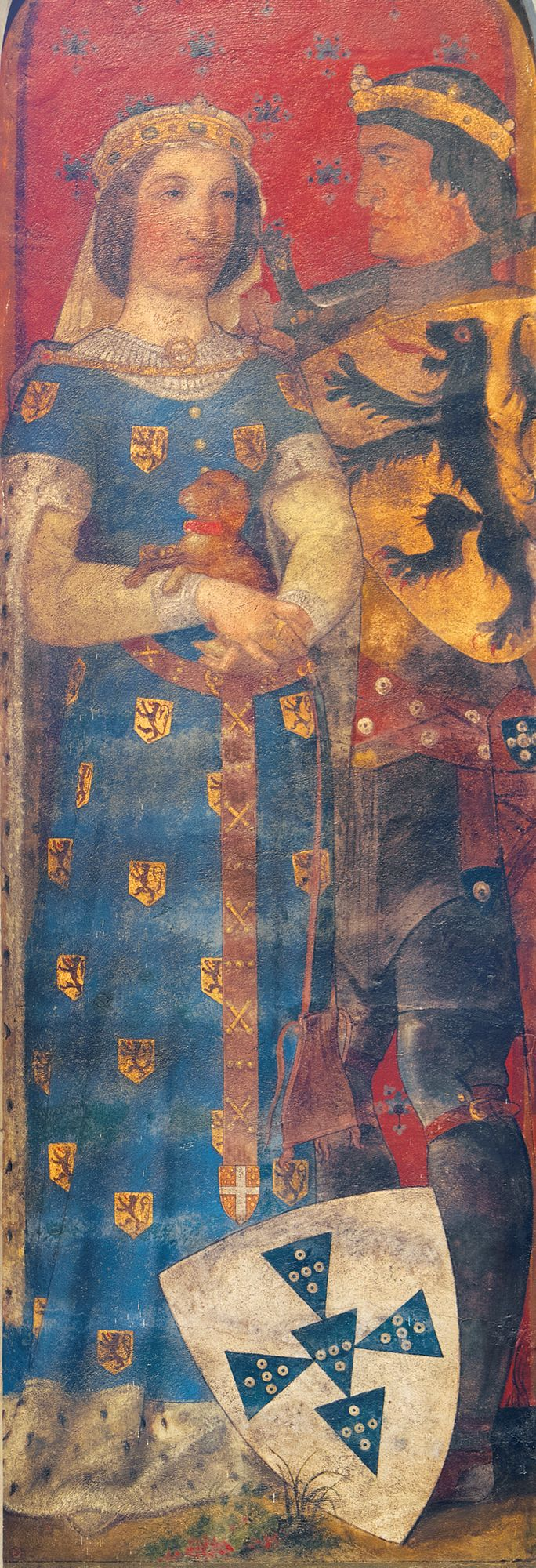 Fernando of Portugal and his wife Joan